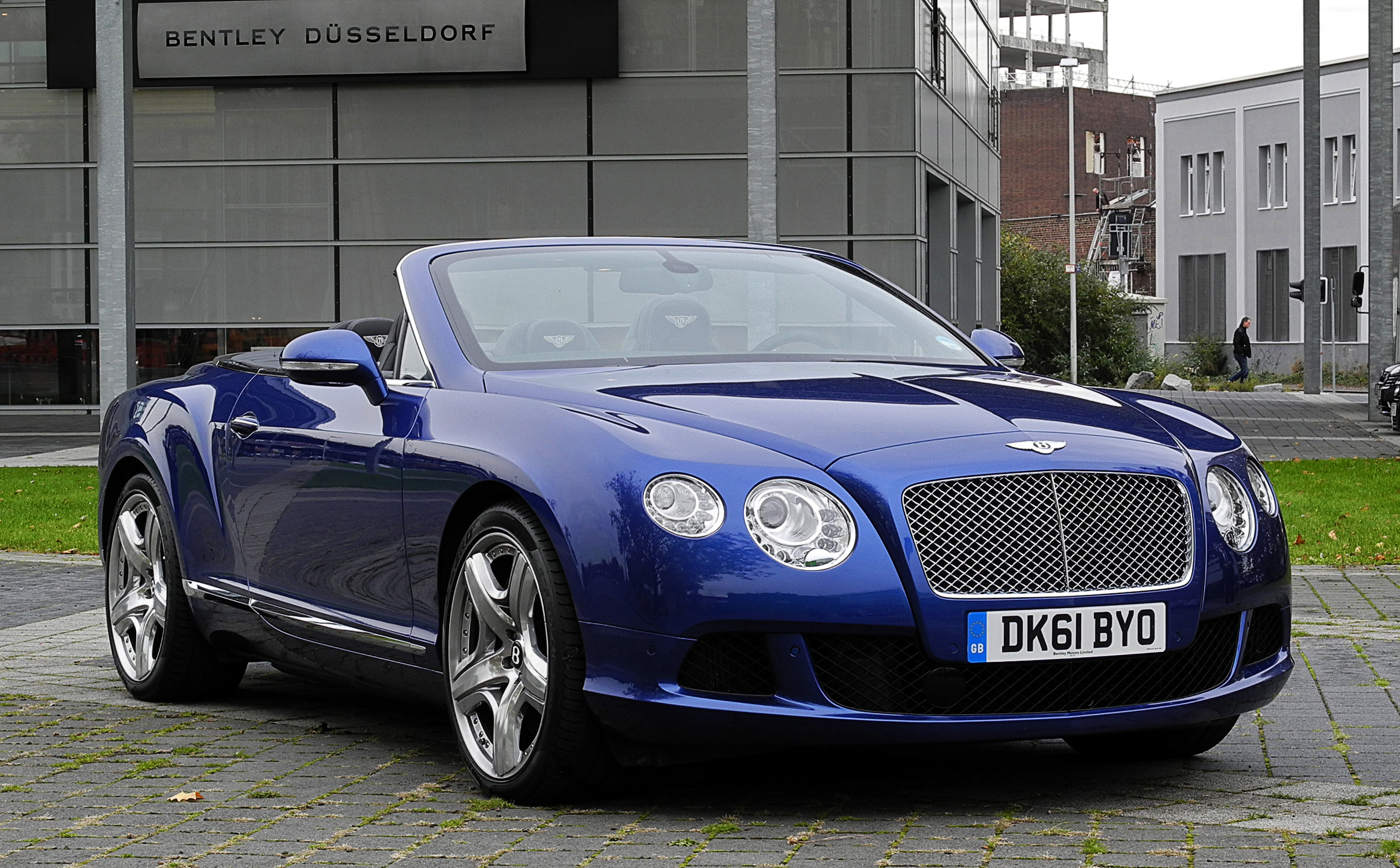 Bentley Continental GTC (II)